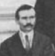 Head and shoulders portaitDetail from group photograph of the Praesidium of the national Proletkult organisation elected at the first national conference, September 1918.